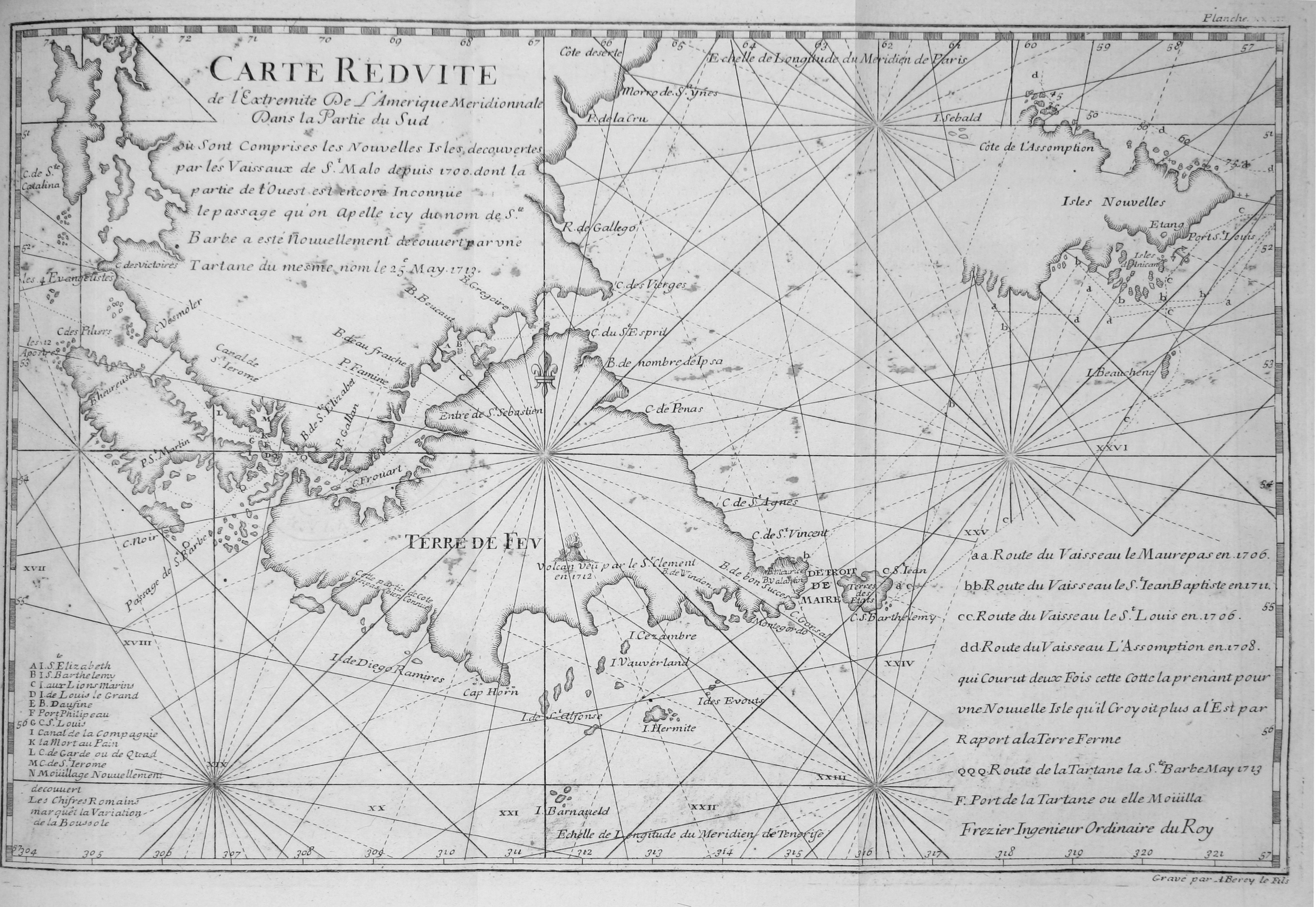 Planche XXXII